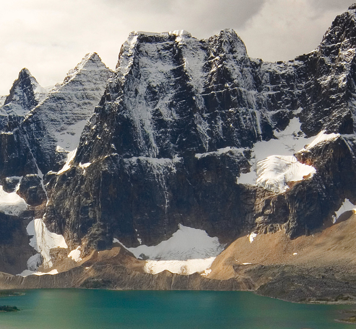 Oubliette Mountain in Tonquin valley, Jasper National Park, Canada